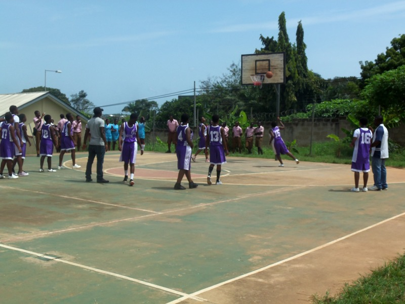 KASS Players on Basketball court